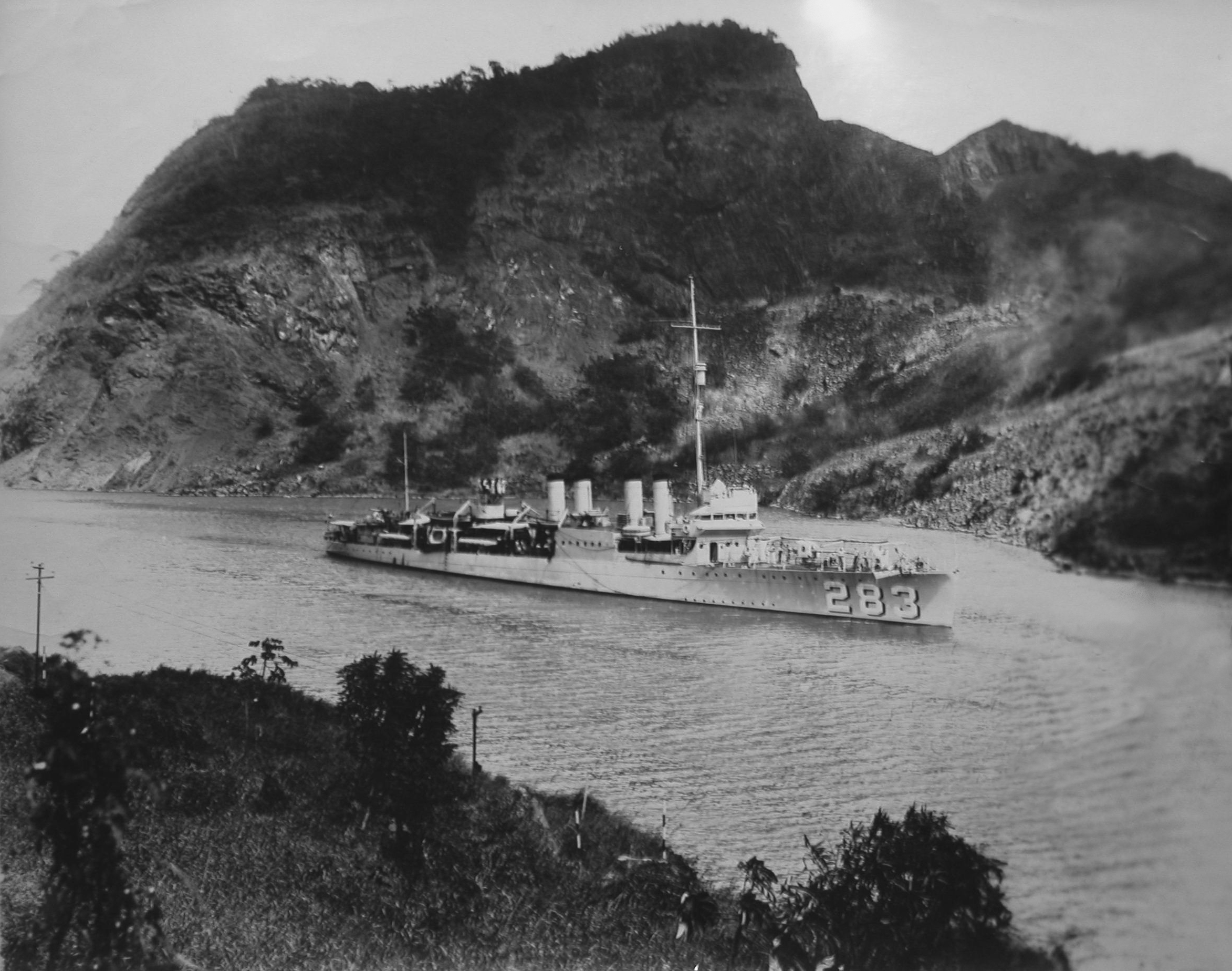 The U.S. Navy destroyer USS Breck (DD-283) transits Culebra Cut in the Panama Canal Zone on 7 February 1926.